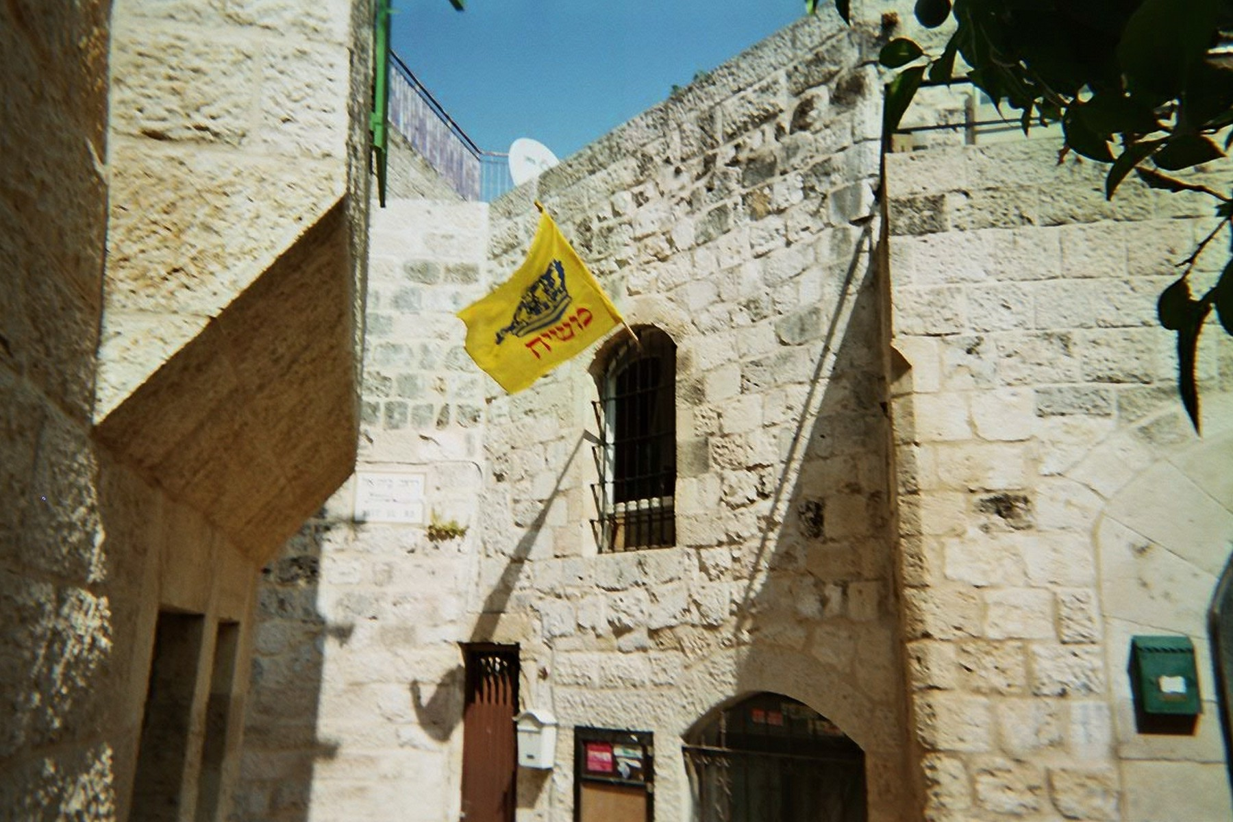 Old Jerusalem Jewish Quarter Beit El Road with Chabad flag at the window